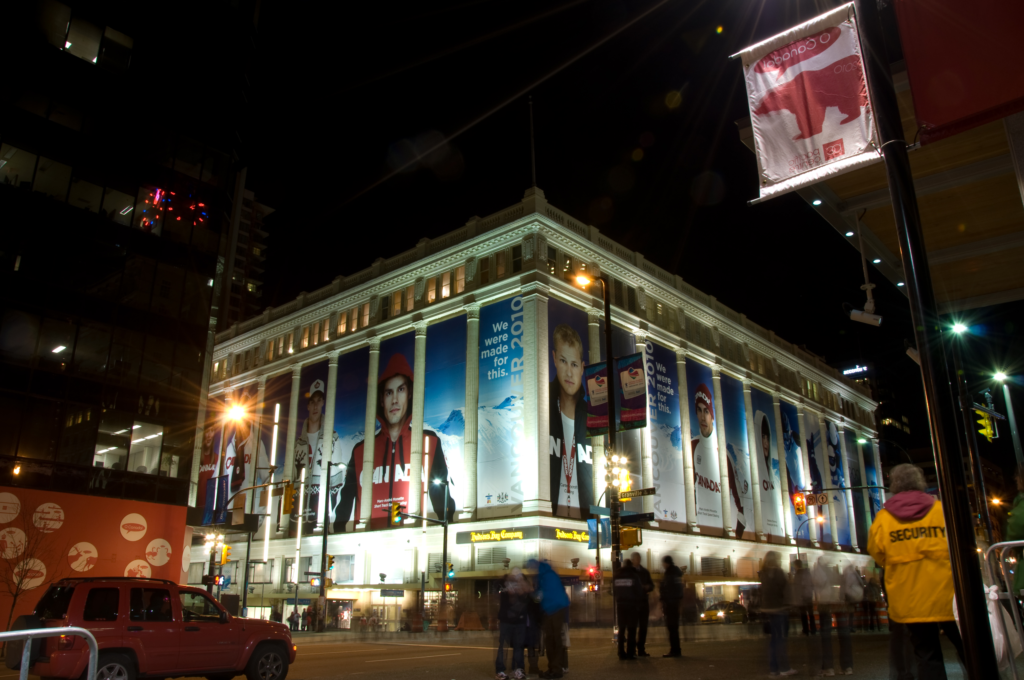 The Bay department store, Vancouver, Canada, 2010